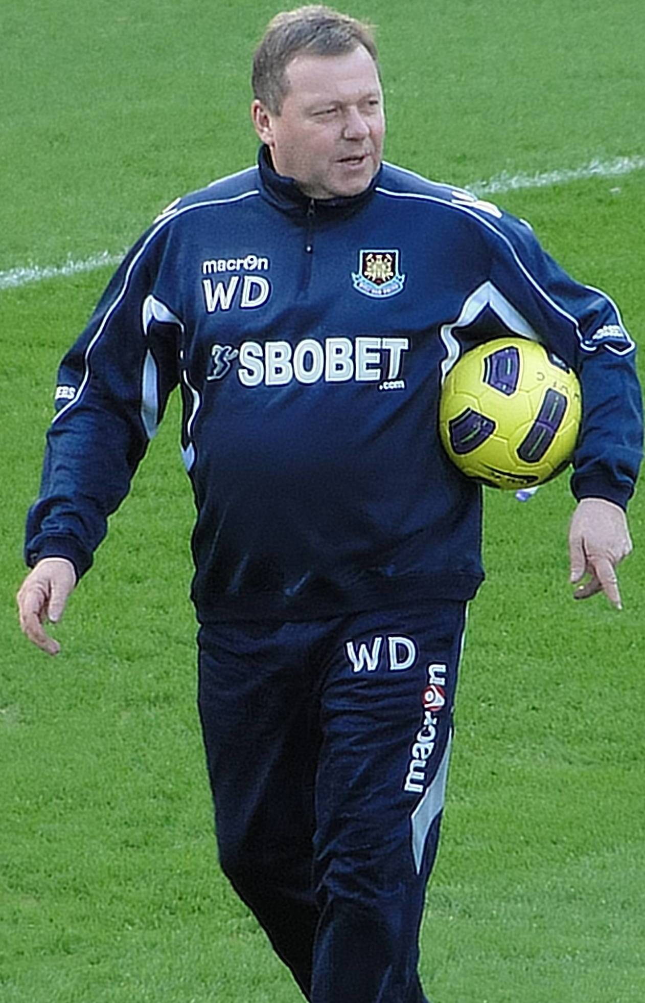 West Ham United defensive coach, Wally Downes, before their FA Cup game against Barnsley on 8 January 2011 at Upton Park.